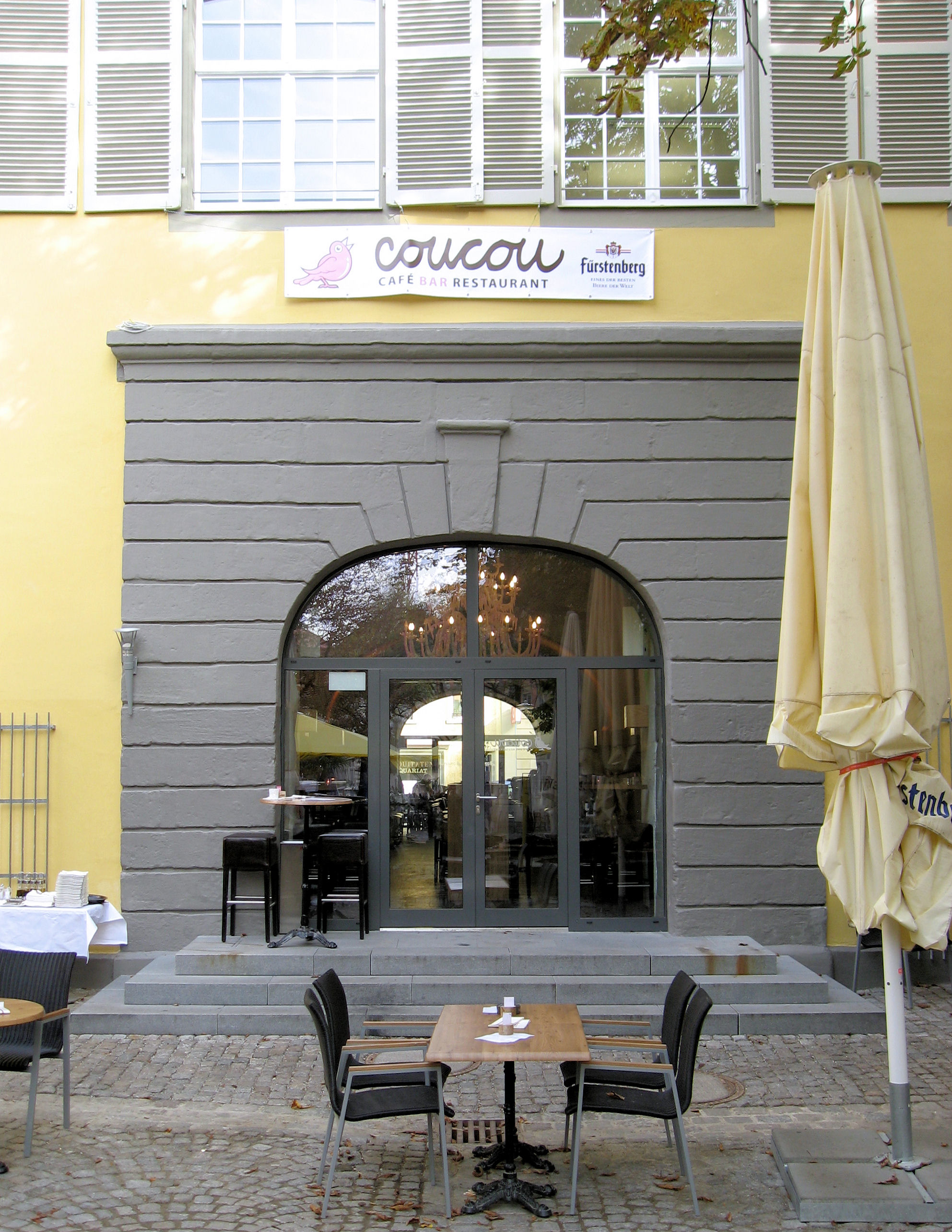 Town gate built by Vauban on the road leading to Breisach